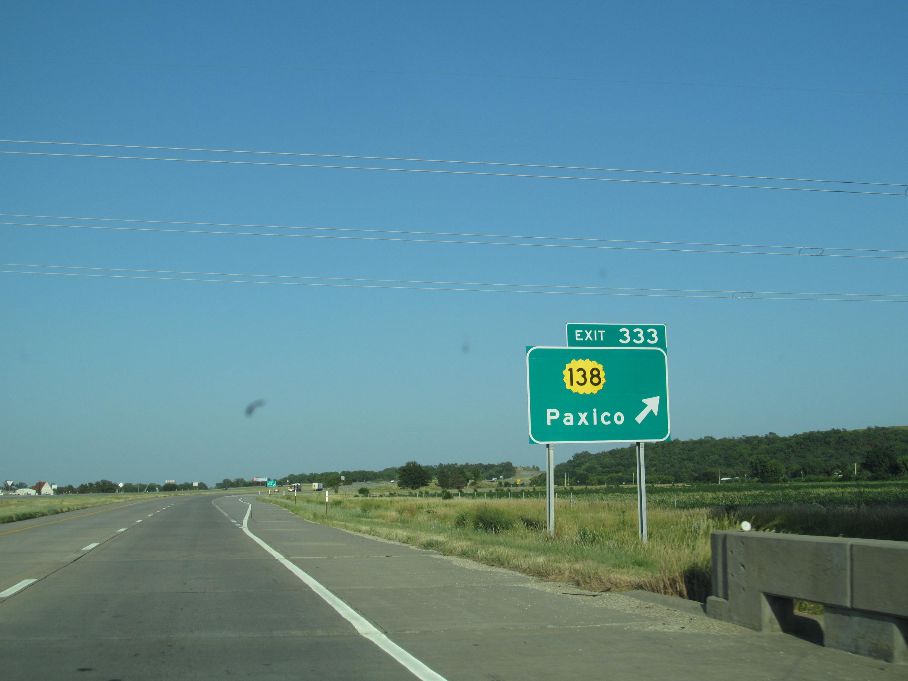 Interstate 70 exit for K-138 (Kansas highway)